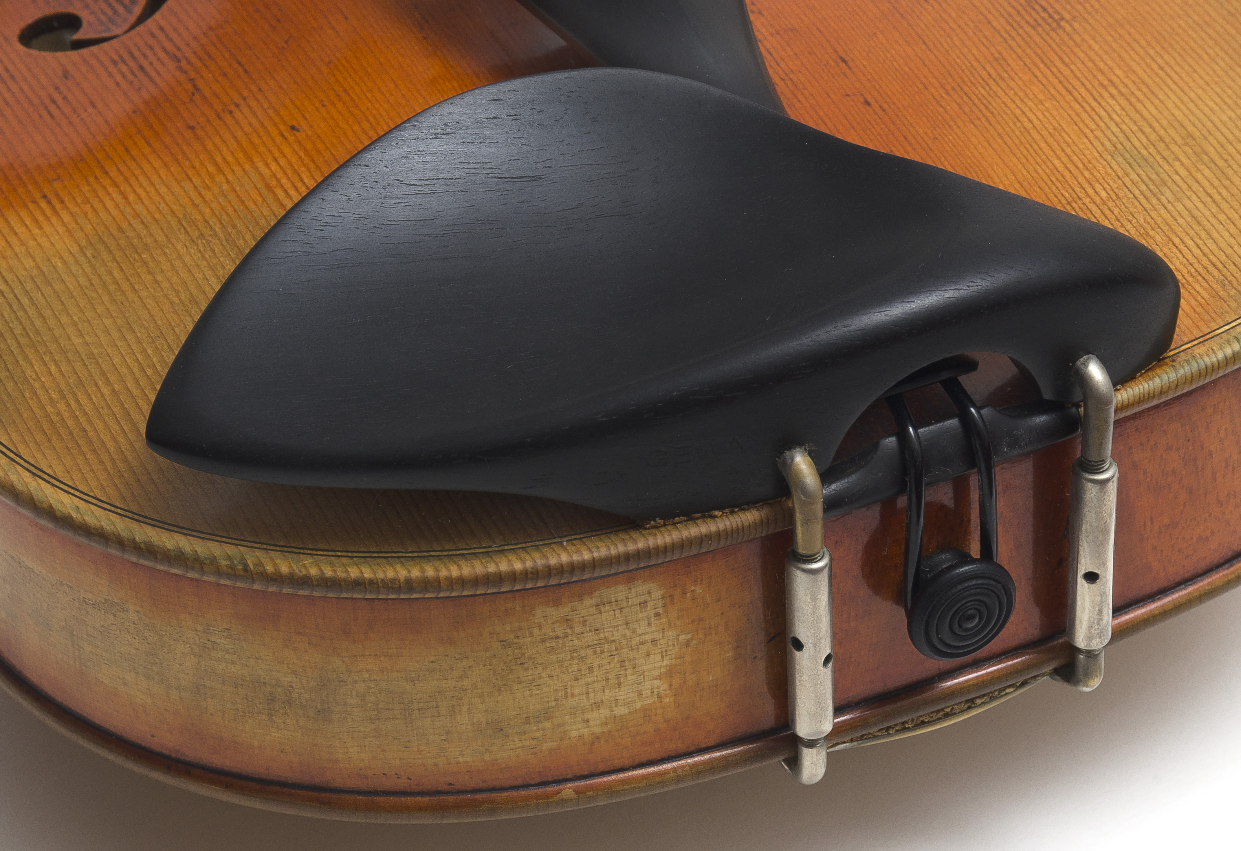 Chin rest on a violin